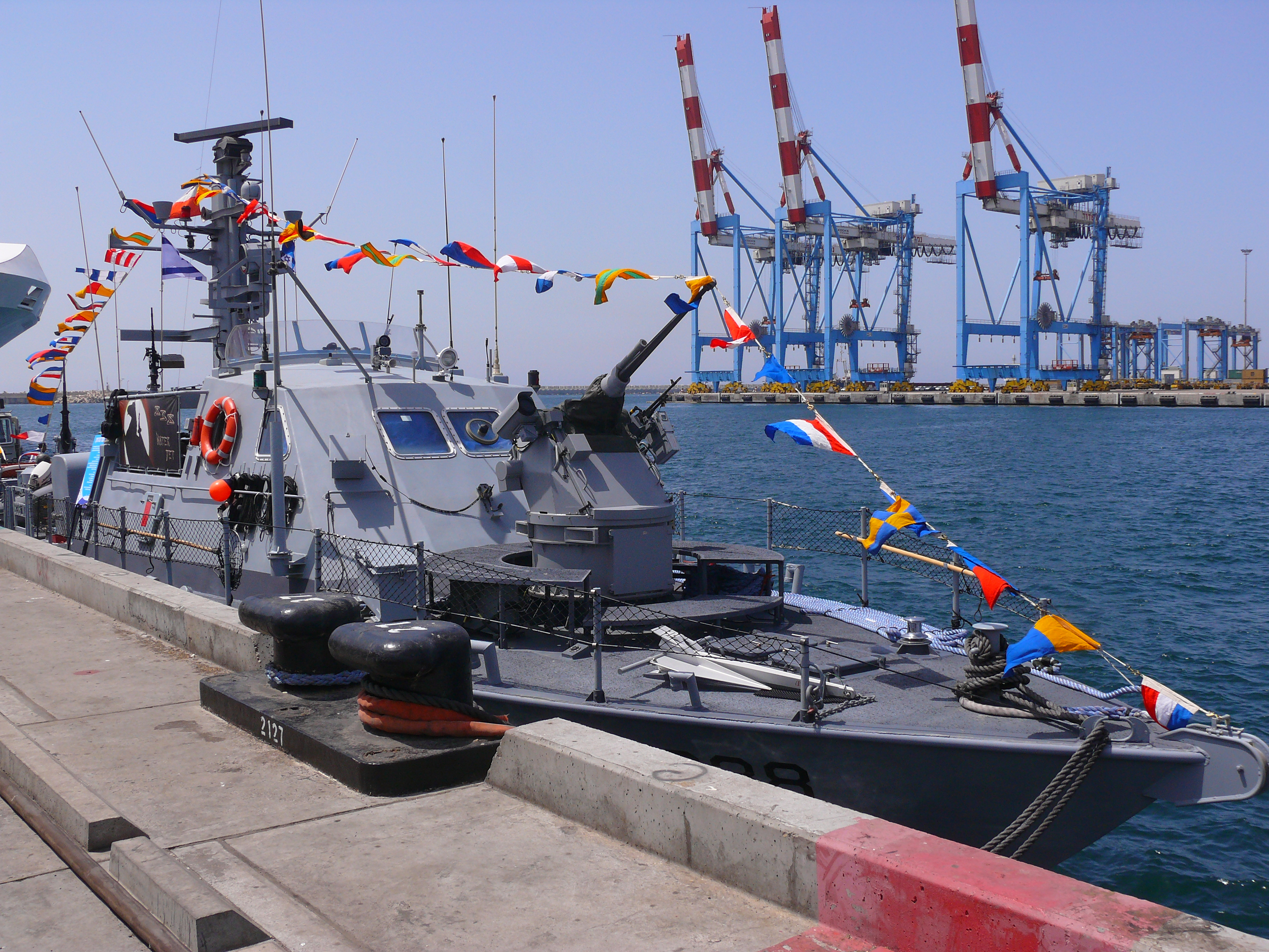 Israeli Sea Corps Super Dvora Mk3 patrol boat